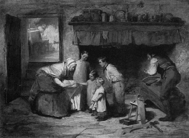 True photograph of David Henry Friston's signed oil on canvas, The New Arrival (14 x 18", or 35.5 x 46 cm), sold as Lot 275 at Sotheby's (London) Victorian Paintings and Sculpture sale on October 1, 1986.